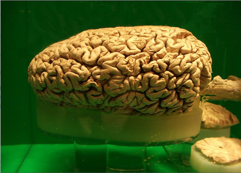 A preserved brain of a sperm whale, on display in Miraikan (Japan).